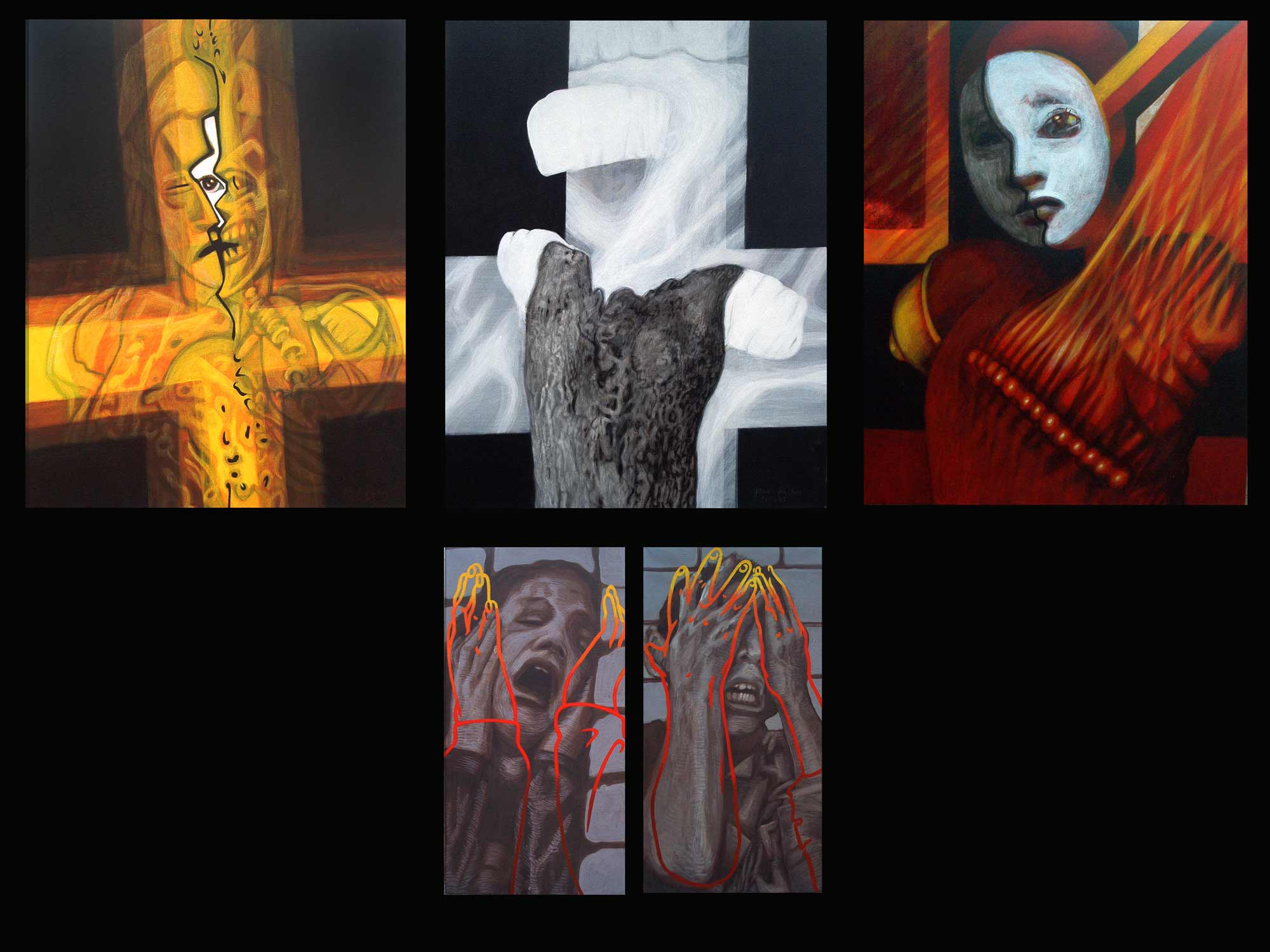 Painting by German artist Yolanda Feindura, 5 piece altar Trauma (2003, black background)